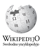 Logo for the Silesian Wikipedia.